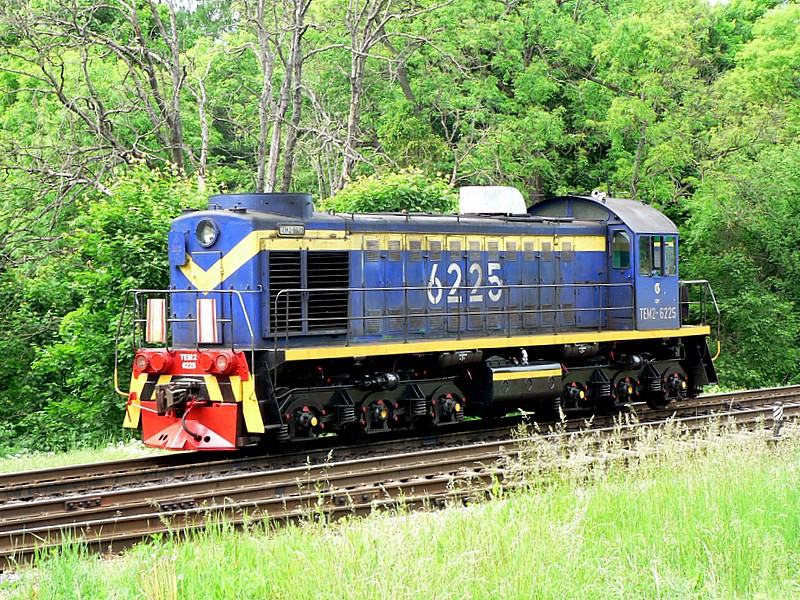 TEM2 in Kėdainiai, Lithuania Author: Wojsyl, 2005